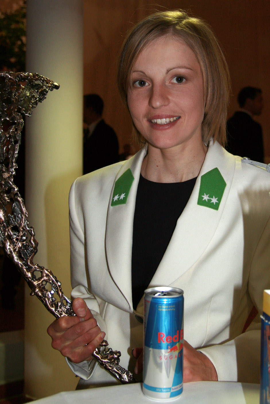 Elisabeth Osl, 3rd at the Austrian Sportspersonalities of the year 2009.